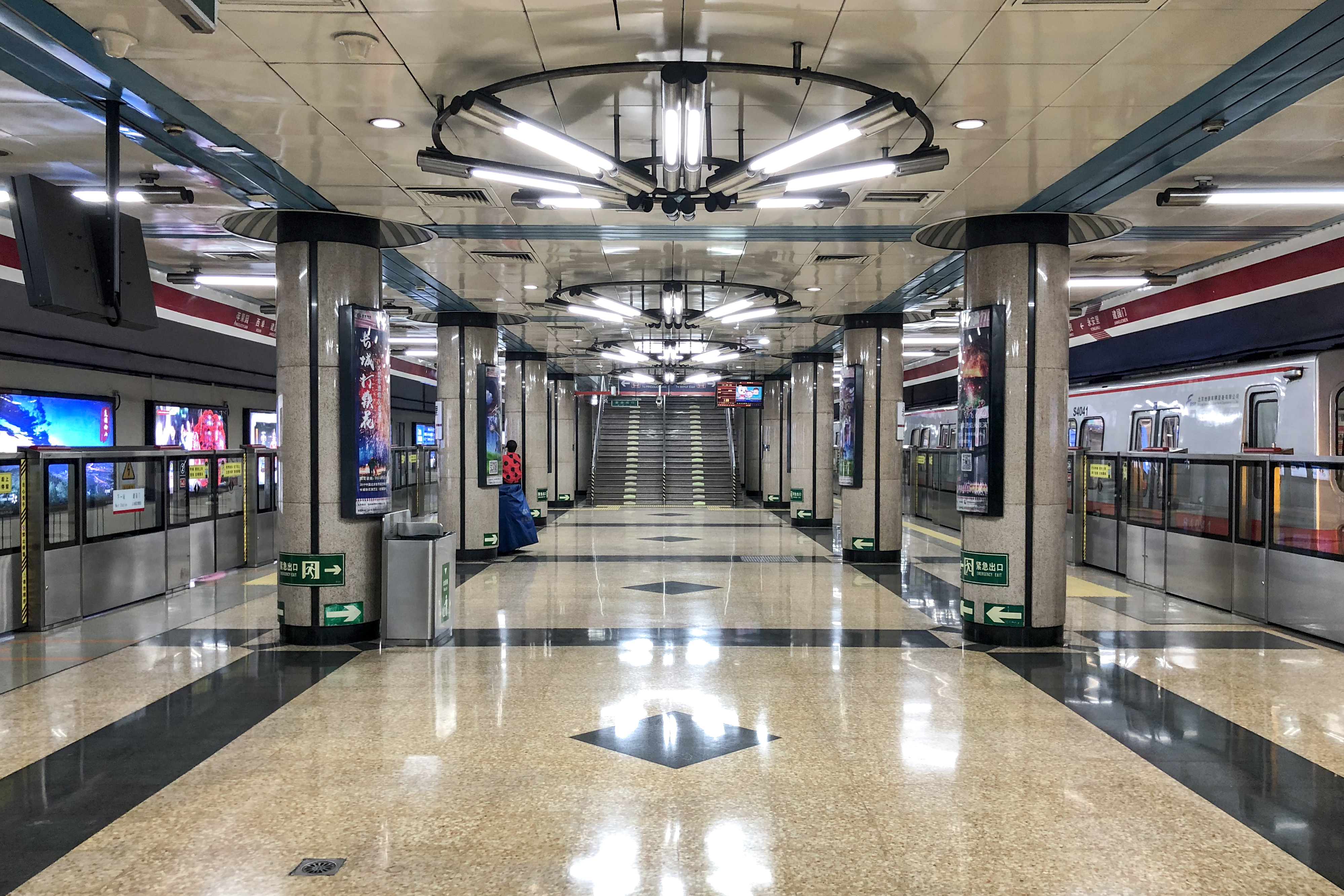 What's the theme of this station?